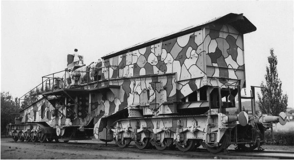 Rear of Amiens Gun with camouflage paintwork